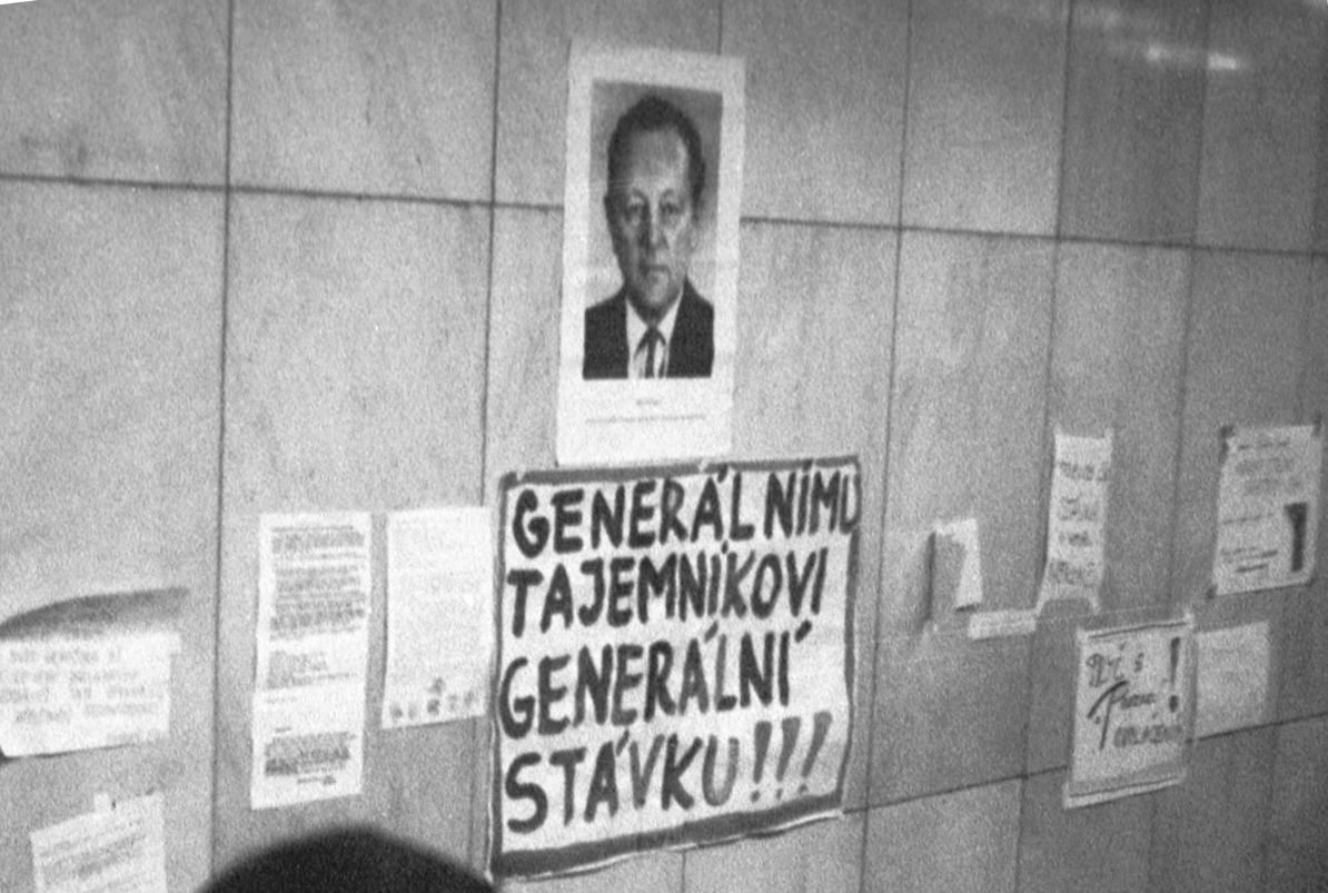 Prague during the Velvet Revolution.